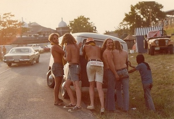 Concert-goers lend a helping hand pushing a stalled VW microbus at the Ozark Music Festival in Sedalia, Missouri, 1974. Note the license plate on one man's bumper says "Arrive Stoned". Ozark Music Festival